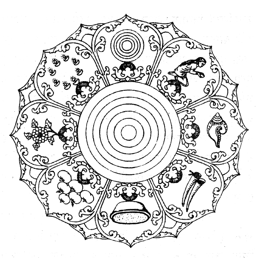 Diagram of Nepalese Mhapuja Mandala, the eight petals show clockwise from top - circle, virgin, conch, horn, yogurt, fruit, flower and lamp.